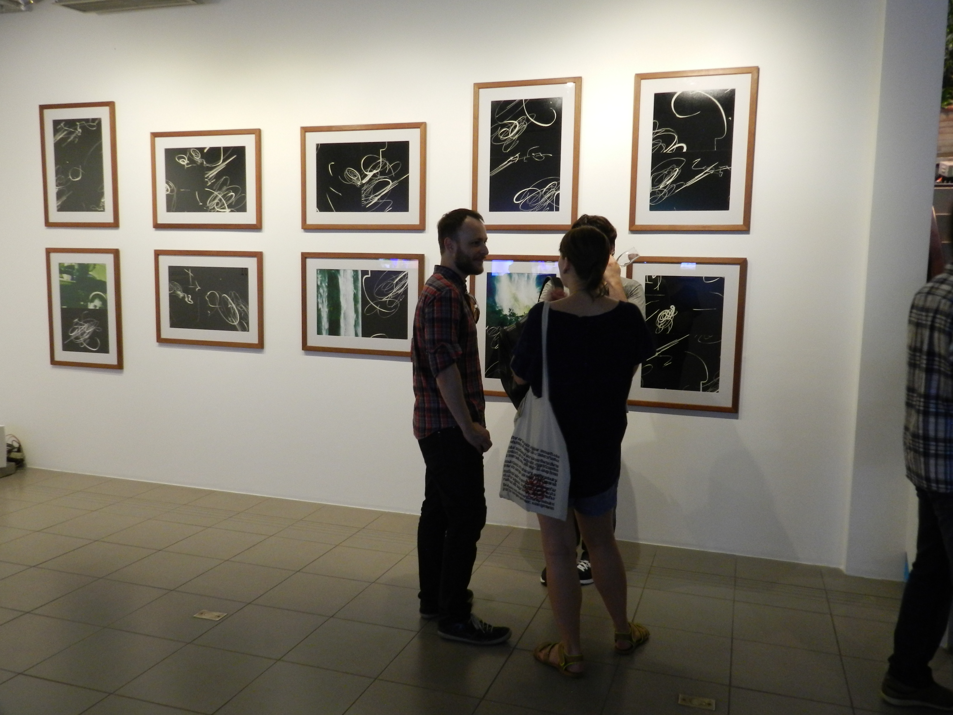 Fotography, Exhibition "Social Dissolve", Goethe-institute Porto Alegre, Brasil 2014